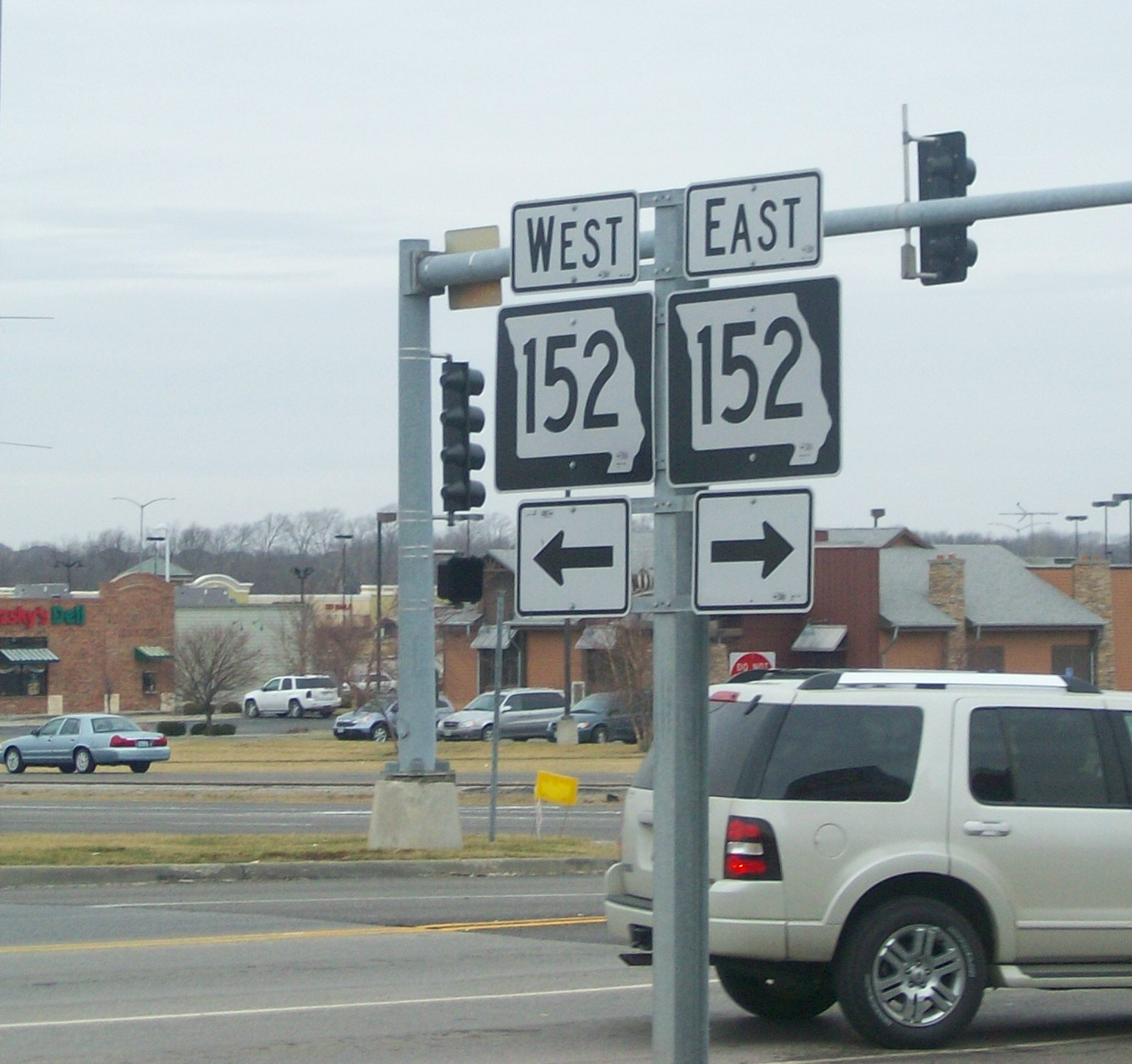 Missouri Route 152 near Liberty